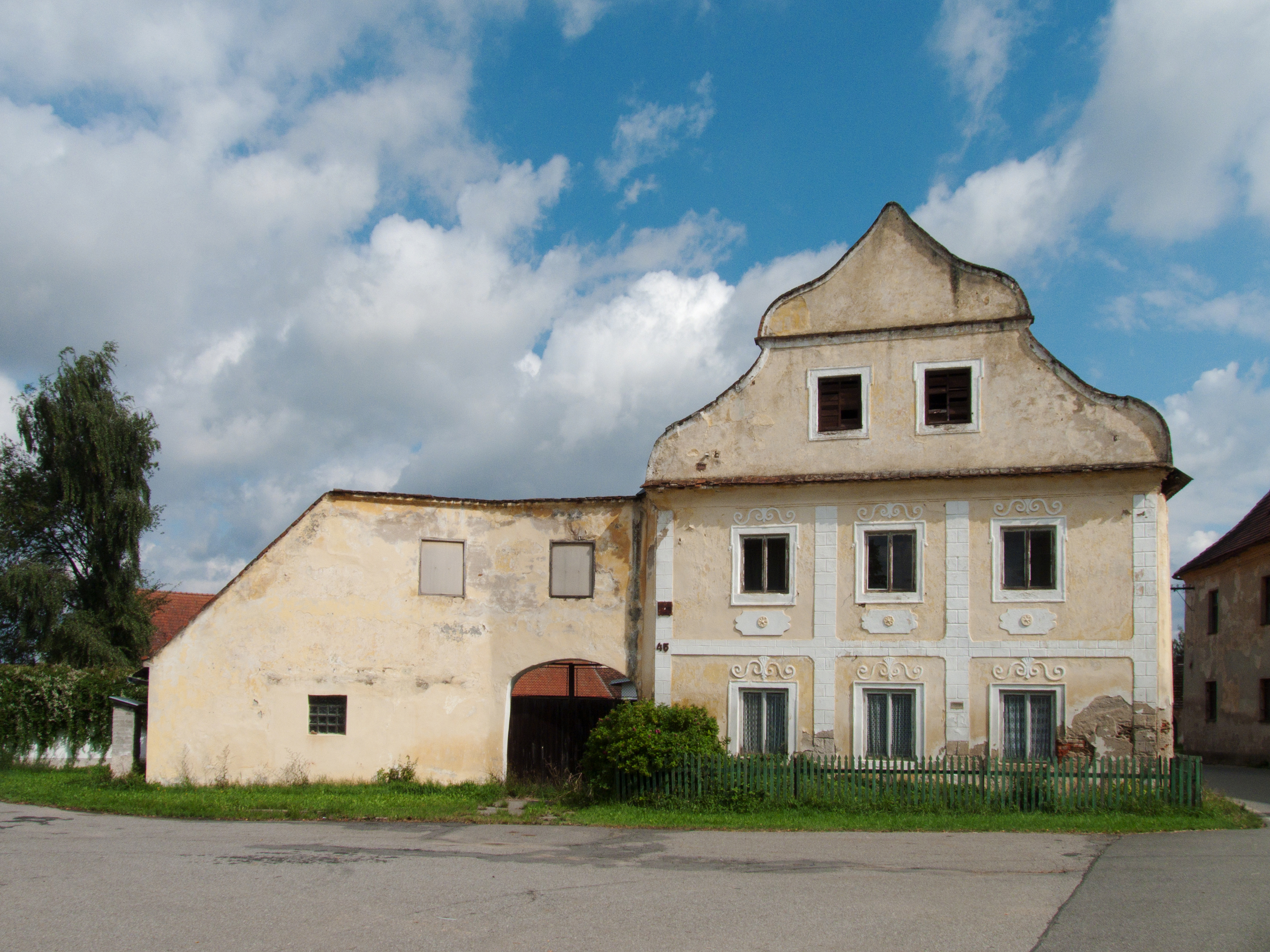 House No 45 in the village of Ratibořské Hory, Tábor District, Czech Republic